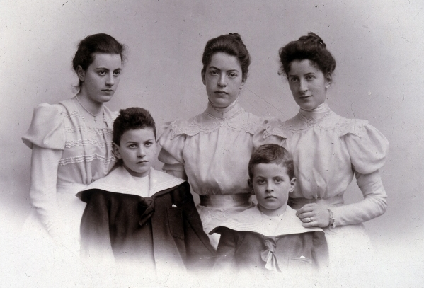 The children of Karl Wittgenstein; f.l.t.r.: Helene, married Salzer (1879–1956), Paul (1887–1961), Hermine (1874–1950), Ludwig (1889–1951) and Margaret, married Stonborough (1882–1958).